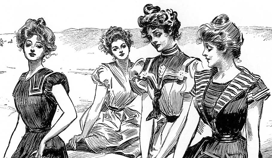 "Gibson Girls" (engraving after original drawing, titled Picturesque America, Anywhere Along the Coast) in beach attire (cropped image), illustration by Charles Dana Gibson